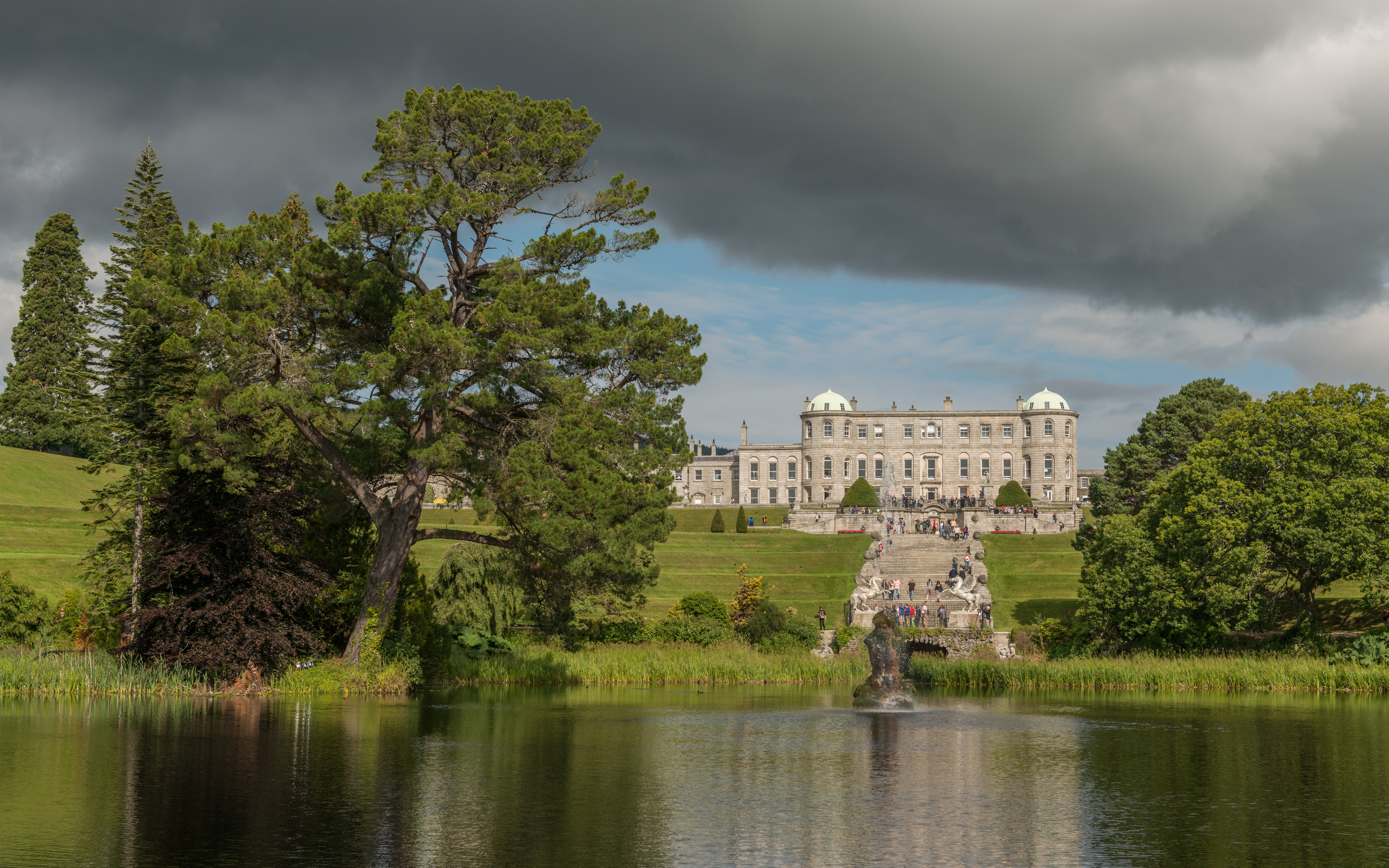 A south view of Powerscourt House and the Triton Lake